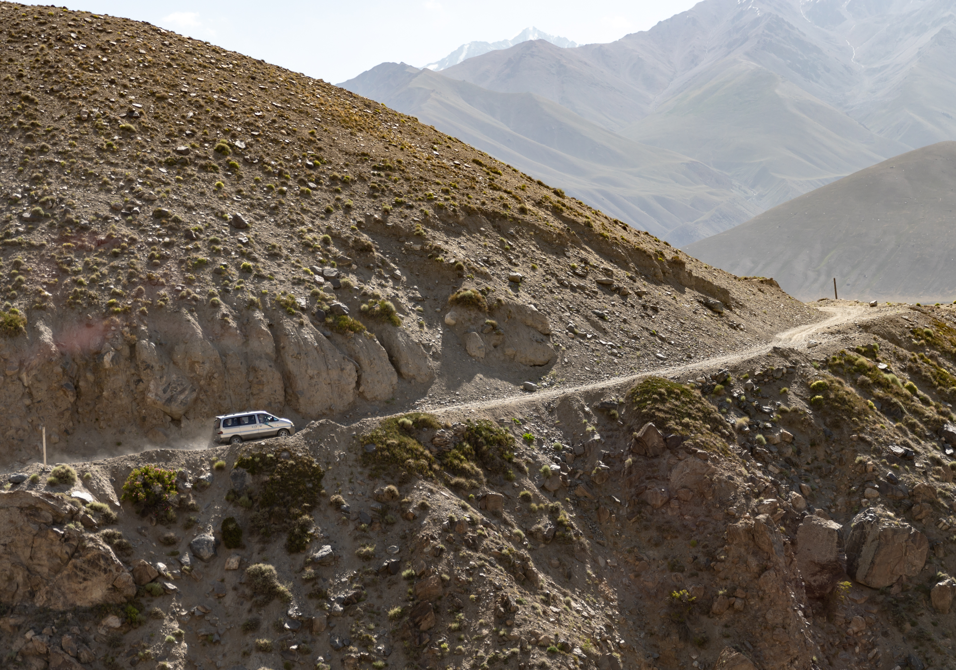 Khargush Pass is a high mountain pass at an elevation of 4.344m (14,251ft) above the sea level, located in the Kūhistoni Badakhshon Autonomous Region, in eastern Tajikistan. The climb sits in an isolated environment of dramatic beauty. Located in the desolate Pamir Mountains, this route going through an indescribable area demands 100% concentration. The lonely ride passes trough some salt lakes. In winter, there falls a lot of snow in these areas, which can cause landslides and avalanches. The road to reach the pass is gravel, in very bad conditions. It connects the Pamir highway with the Wakhan valley. The road to the summit is gravel, rocky, tippy and bumpy at times. It’s called The Royal Silk Road. The road is usually impassable from October to June (weather permitting). Great trail for experienced wheelers. Avoid driving in this area if unpaved mountain roads aren't your strong point. 4x4 vehicle required. The road has quite a lot of sand and gravel, but is generally alright to drive. Stay away if you're scared of heights. As you climb into the pass you come into a couple mirror-like lakes and then some weird, vast desert landscapes Expect a trail pretty steep. The average gradient is 5,5% though in actuality there are long sections between 10% and 15%. (Dangerous roads)